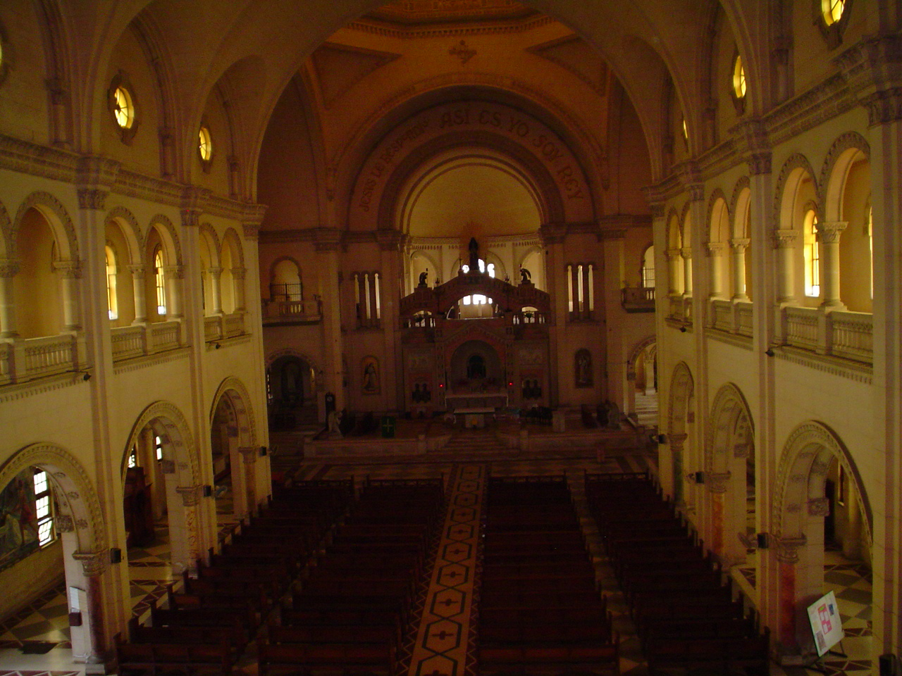 interior of Iglesia de Jesús de Miramar in Havana